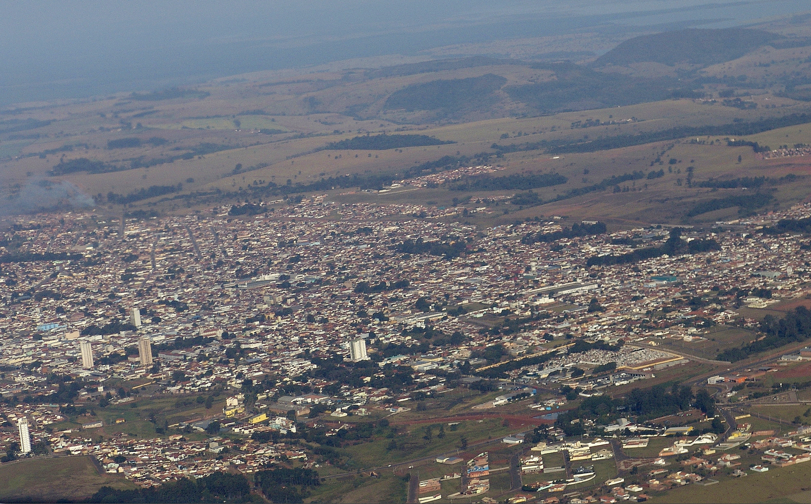 Aerial view of Avaré, São Paulo, Brasil - In the upper right corner, one can perceive the Paranapanema river.